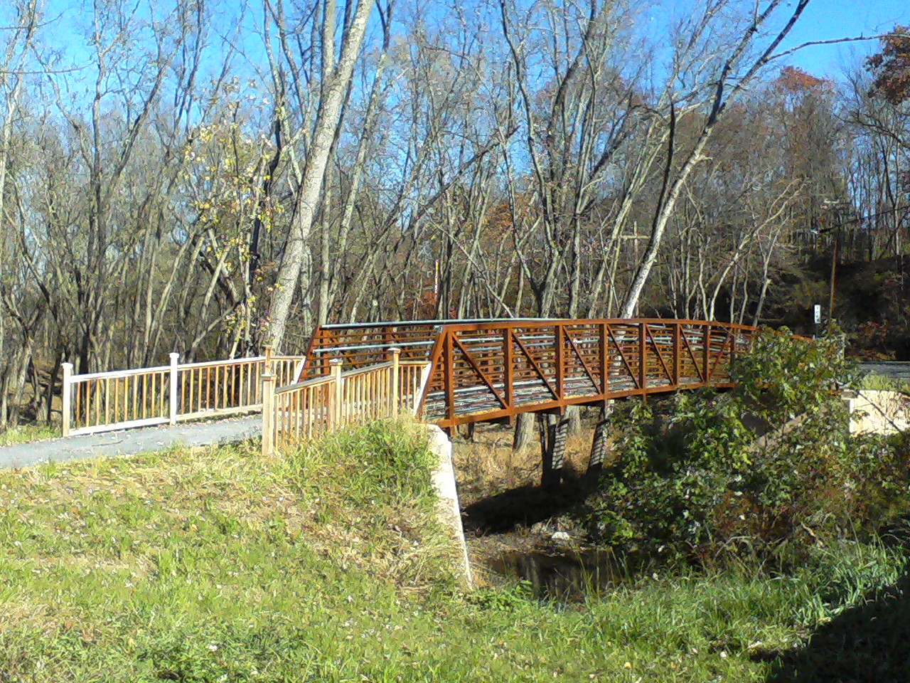 The bridge between the Sojourner Truth park in New Paltz, New York, and the adjacent Wallkill Valley Rail Trail.